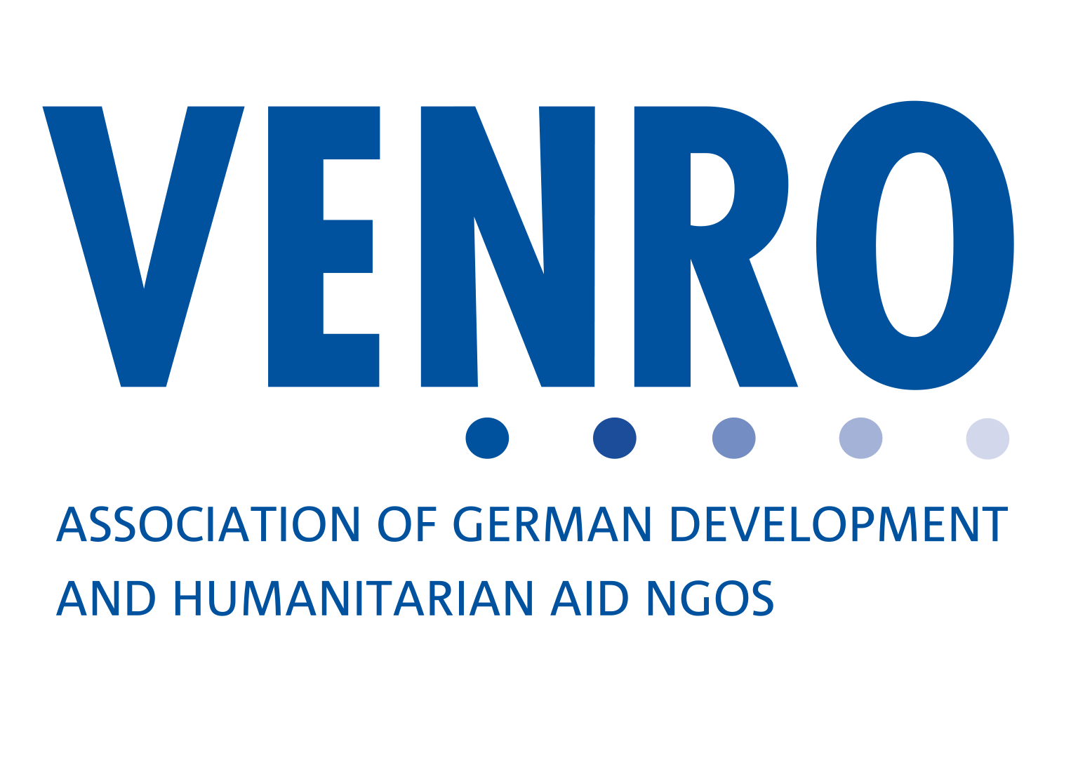 Logo of VENRO in English